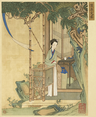 This painting depicts Zhuo Wenjun (卓文君).